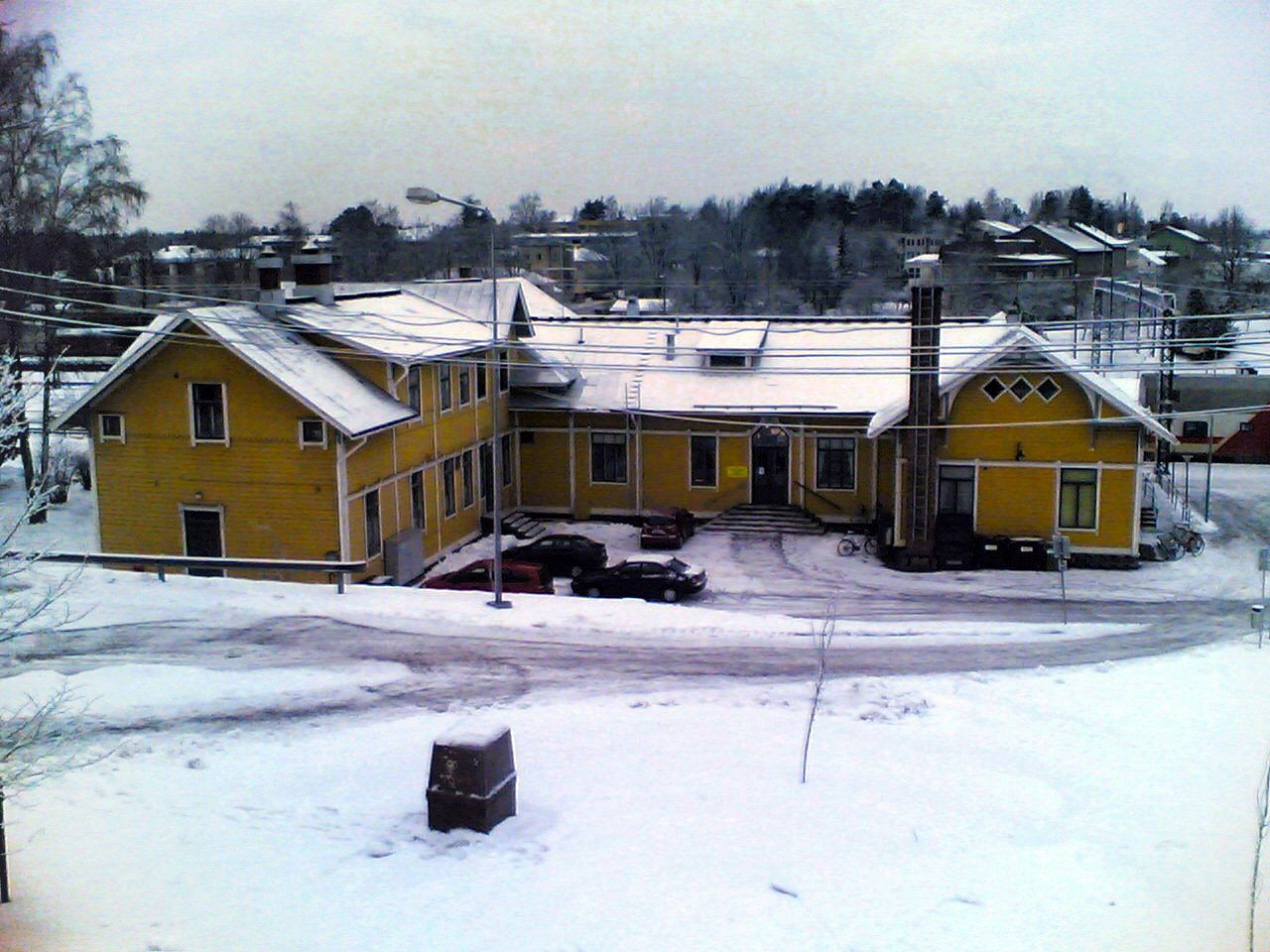 Karis railway station in Karis (now part of Raseborg), Finland.